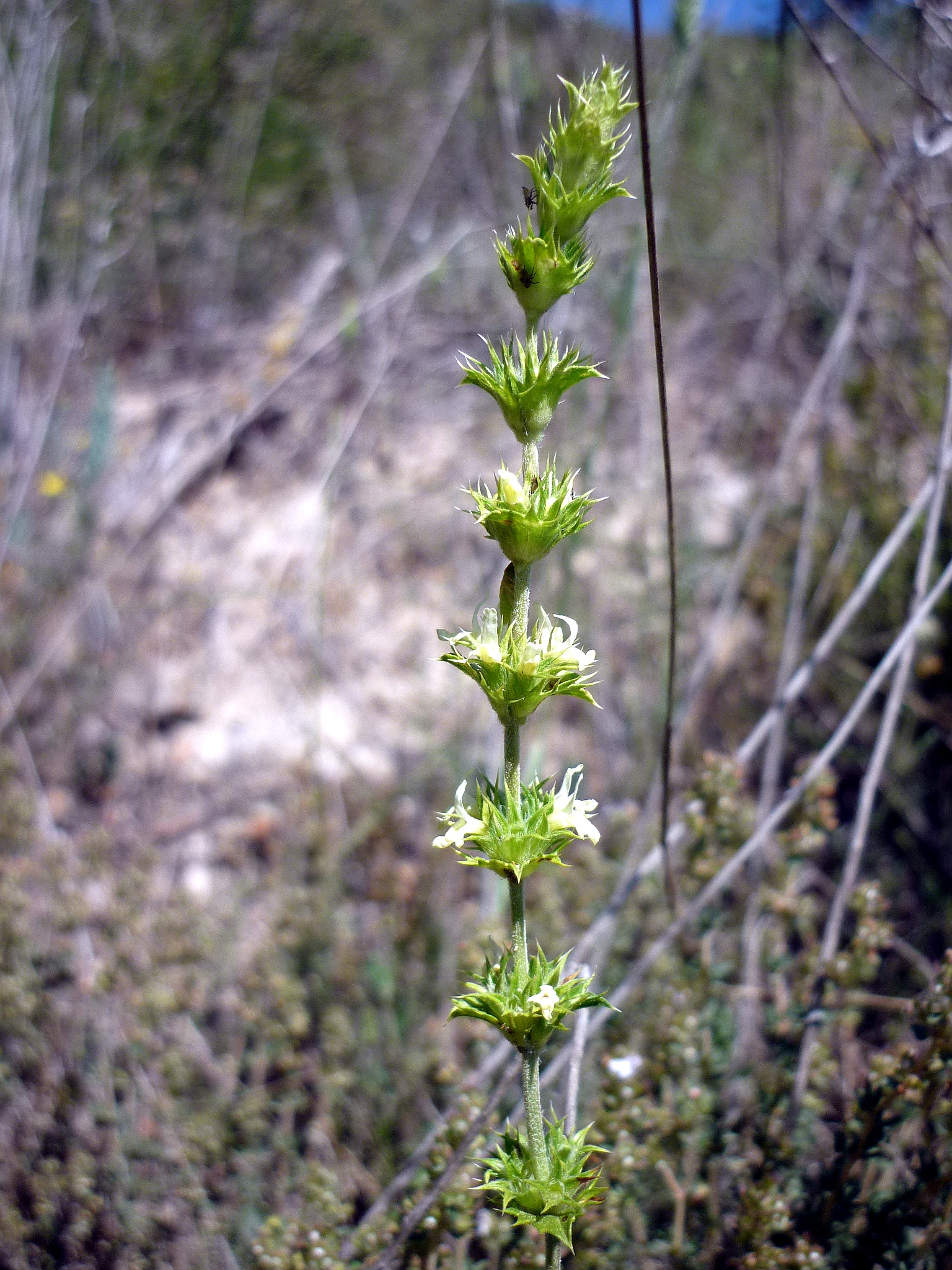 Sideritis angustifolia. In Torà (Segarra-Catalunya). To 460 m. altitude